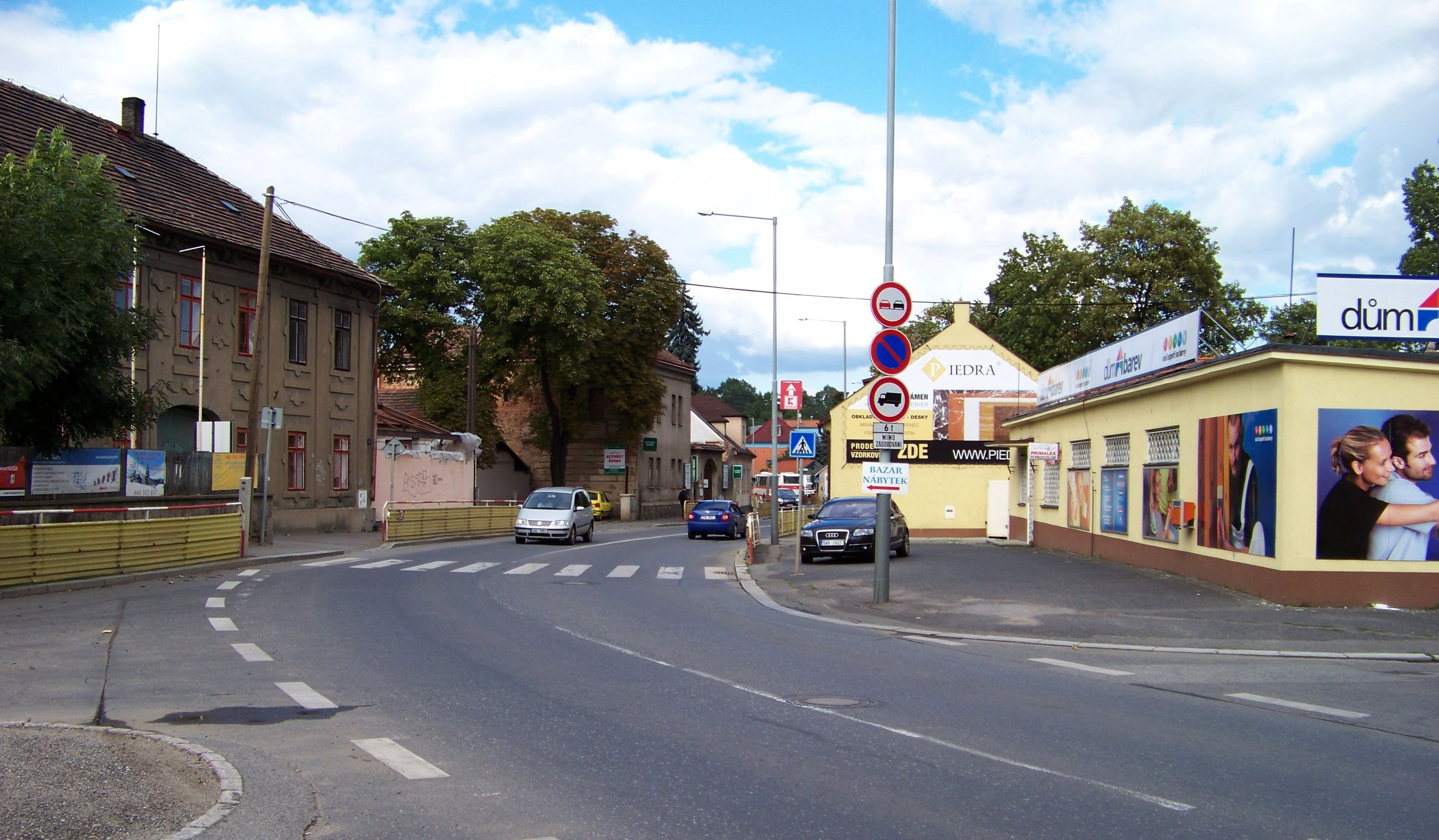 Prague-Malešice, the Czech Republic. U tvrze street and Malešice Square.